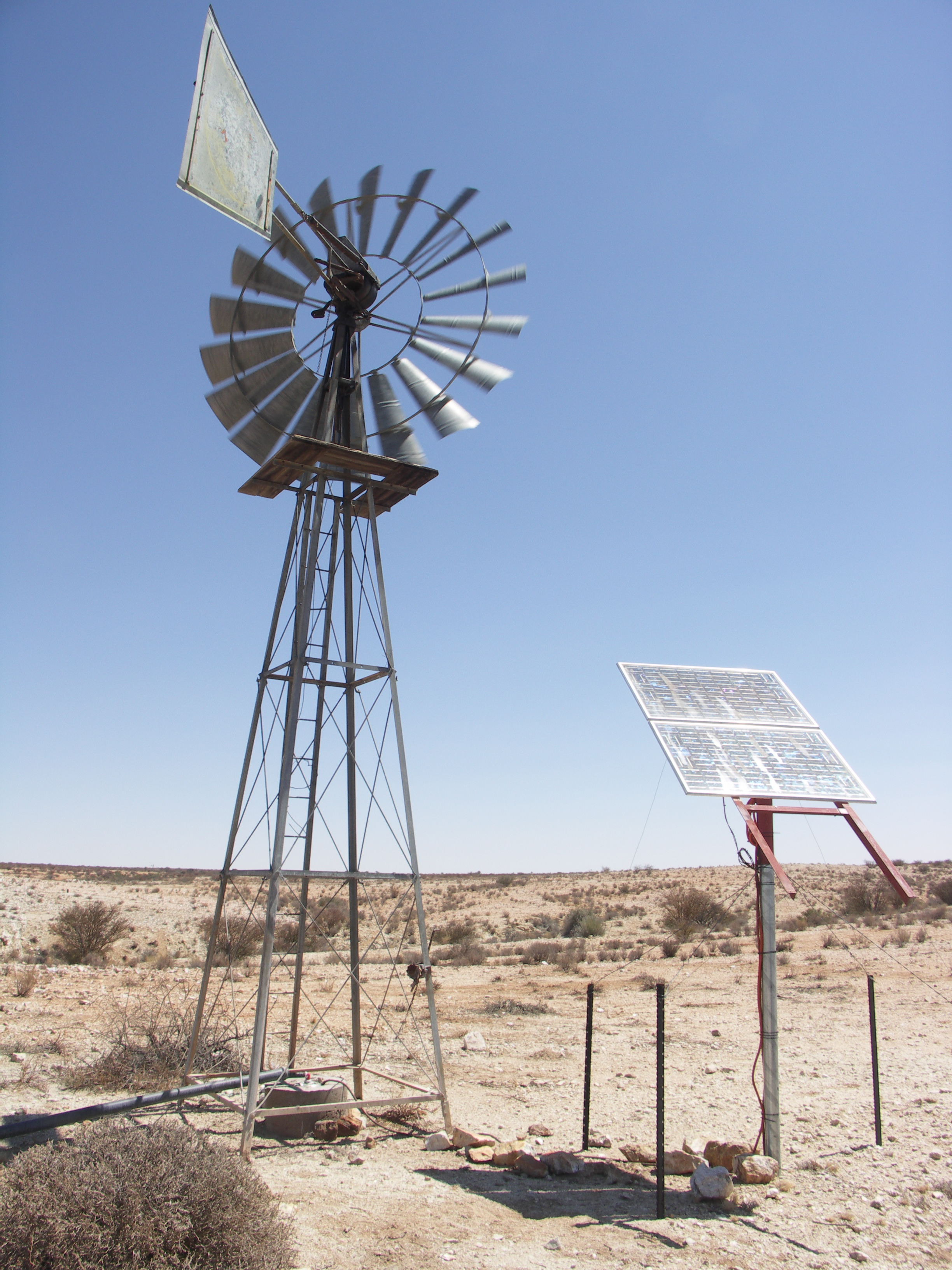 Retired windpump at a watering hole in Augrabies Falls National Park, South Africa. The windpump no longer has a pump-shaft and the pair of solar panels now power an electric pump.